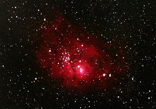 The Lagoon Nebula (also known as M8 and NGC 6523) is an H II region in the Sagittarius constellation.